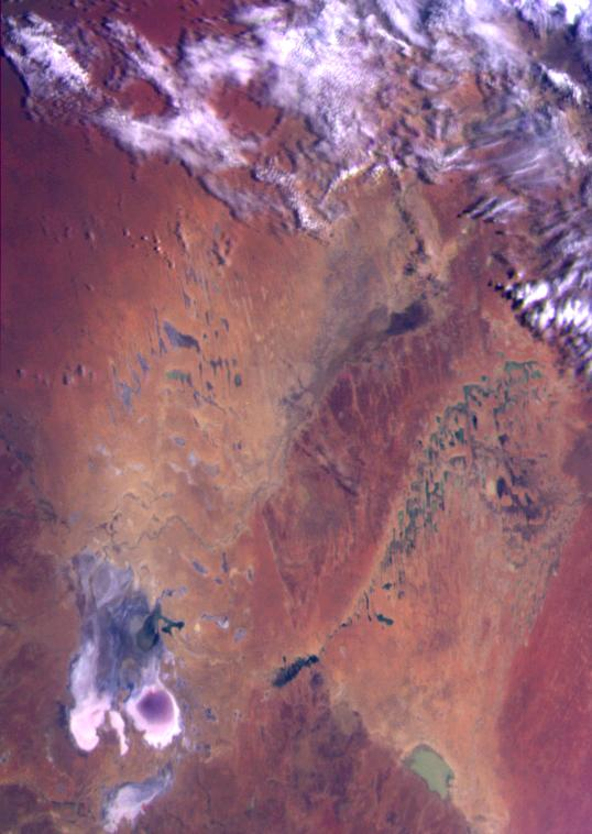 This color image of the Simpson Desert in Australia was obtained by the Galileo spacecraft at about 2:30 p.m. PST, Dec. 8, 1990, at a range of more than 35,000 miles. The color composite was made from images taken through the red, green and violet filters. The area shown, about 280 miles wide by about 340 miles north-to-south, is southeast of Alice Springs. At lower left is Lake Eyre, a salt lake below sea level, subject to seasonal water-level fluctuations; when this image was acquired the lake was nearly dry. At lower right is the greenish Lake Blanche. Fields of linear sand dunes stretch north and east of Lake Eyre, shaped by prevailing winds from the south and showing, in different colors, the various sources and/or ages of their sands.